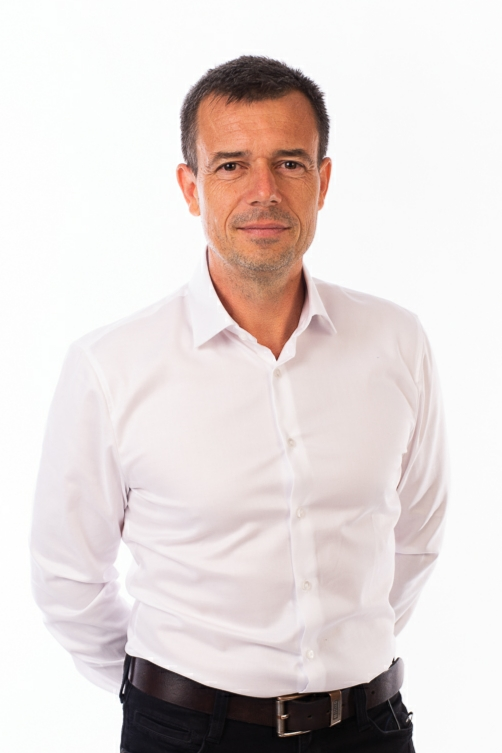 Jiri Kaderavek photo